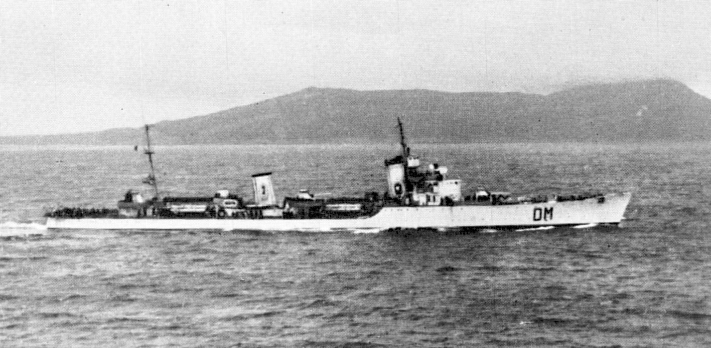 The Italian destroyer Alvise Da Mosto